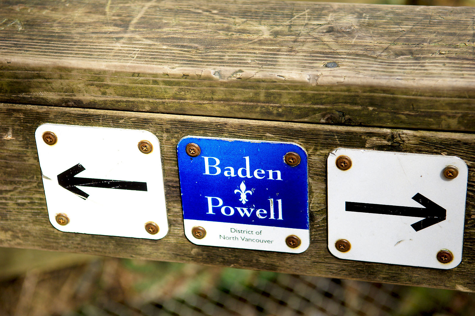 This is an example of the trail markers on the Baden Powell trail